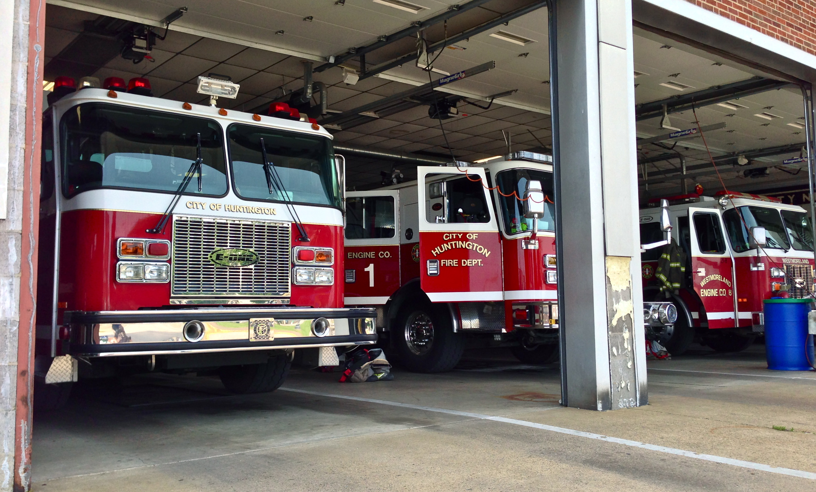 Huntington Fire Department trucks at Station No. 1.